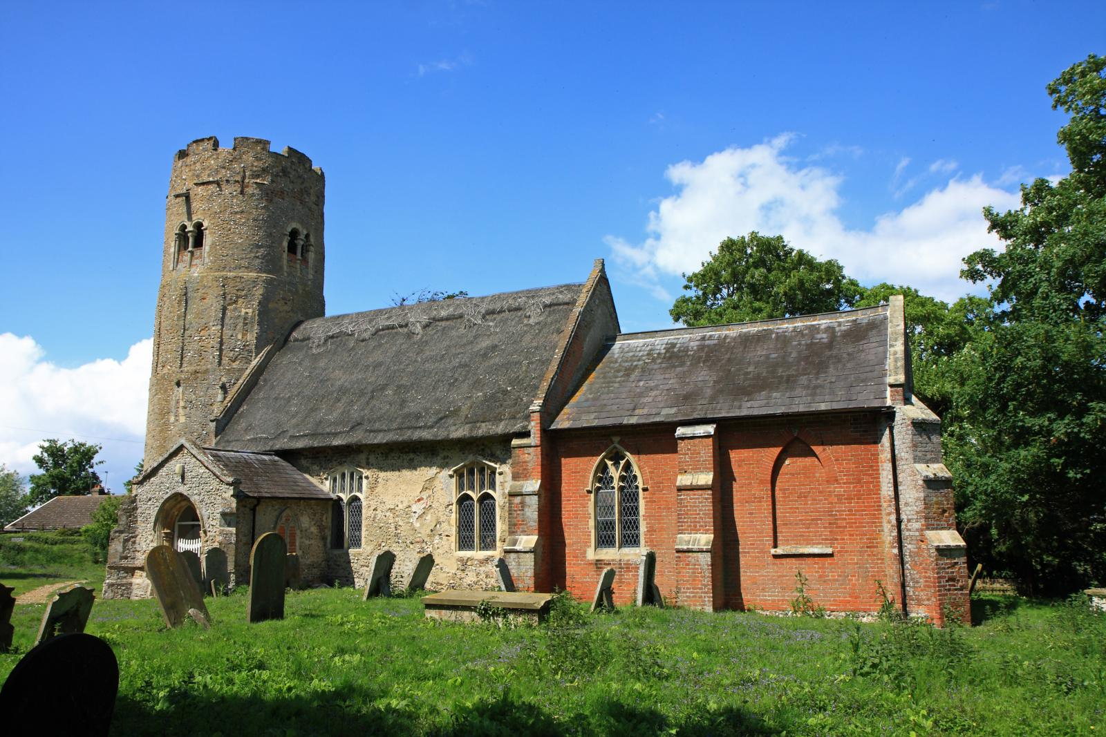 Parish church of St Matthias, Thorpe-next-Haddiscoe, Norfolk, seen from south-southeast